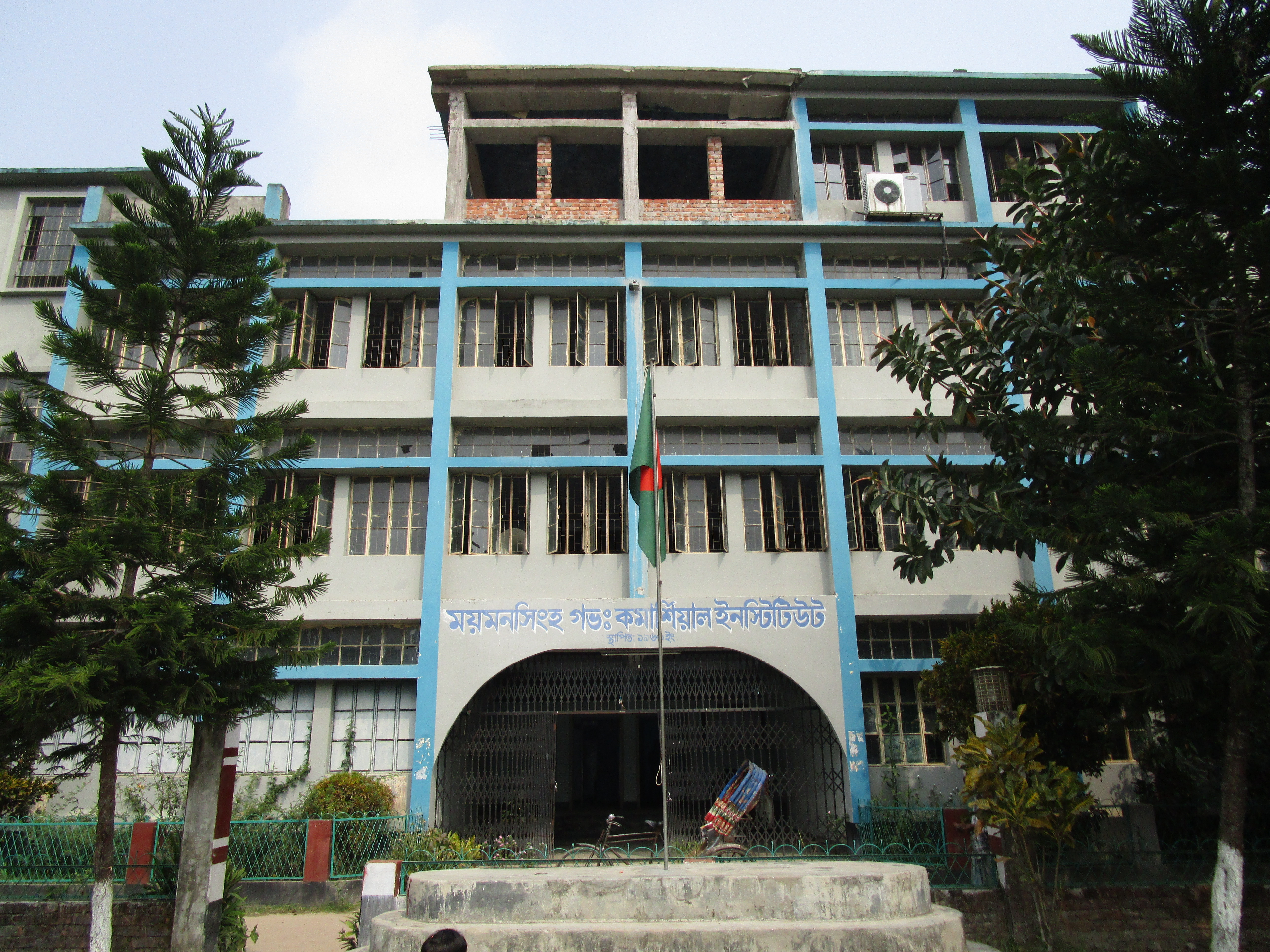 The main building of Govt. Commercial Institute, Mymensingh